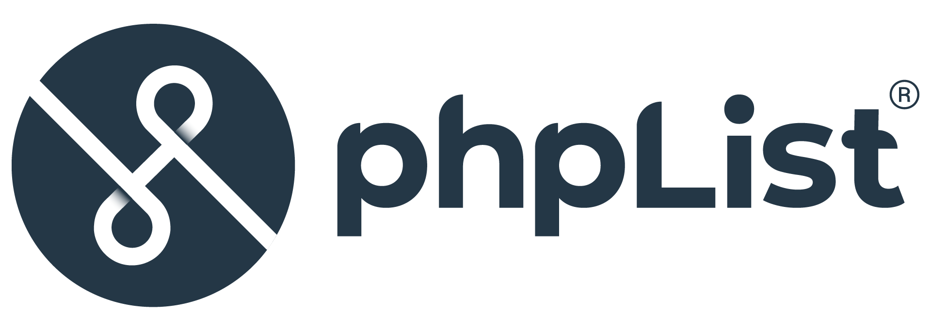 This is the phpList logo in PNG format.